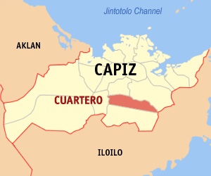 Map of Capiz showing the location of Cuartero